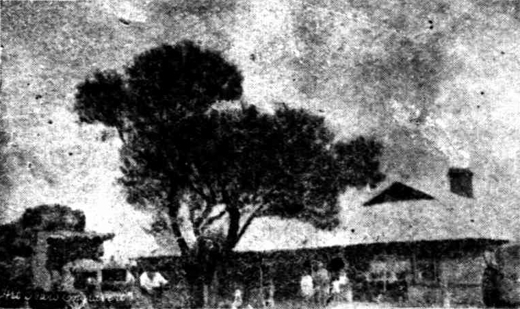 Billabalong Station in 1922. Caption reads:"A.E.C. DEMONSTRATION LORRY Loaded with wool at Mr. Angus Campbell's Billabalong Station, 90 miles from Pindar."